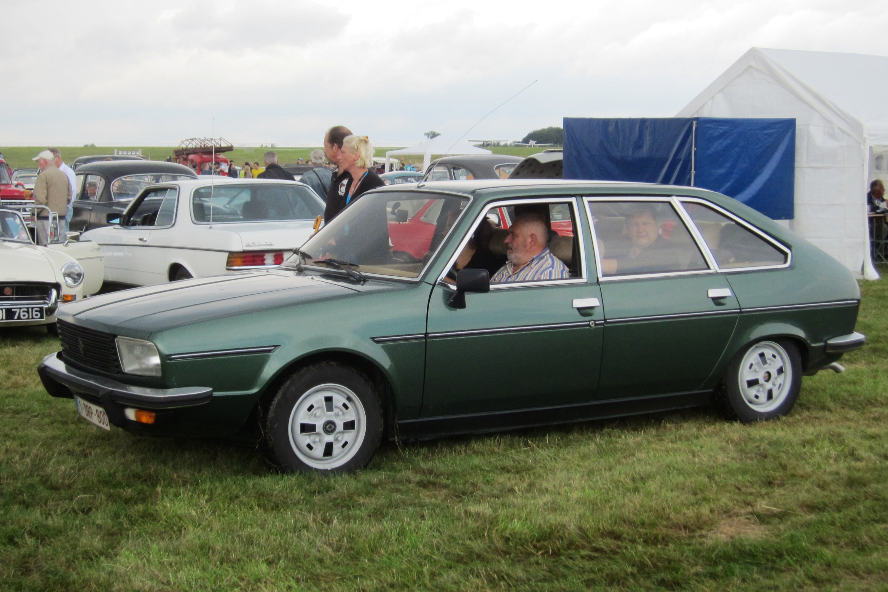 Renault 20 in profile